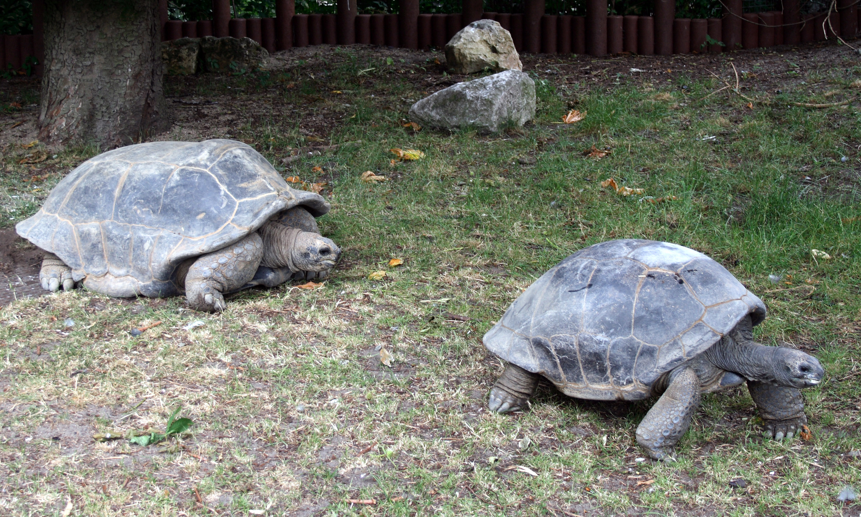 Aldabra_tortoises_mating. Scientific name: Geochelone gigantea, Aldabrachelys gigantea Schweigger, 1812; Dipsochelys dussumieri